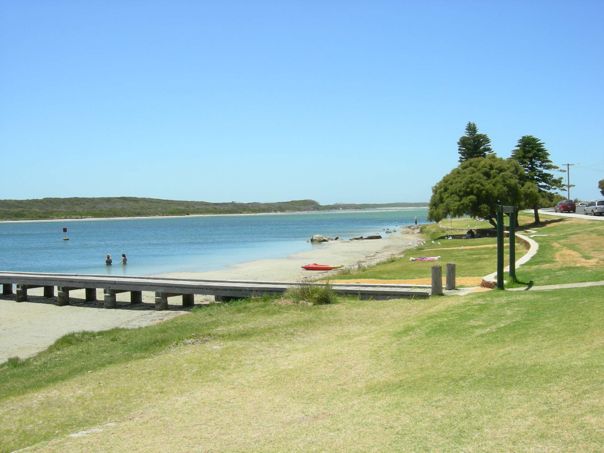 Taken toward estuary at mouth of Blackwood river at Augusta, Western Australia. facing east. 'Colour Patch' and Flinders Bay to the right .